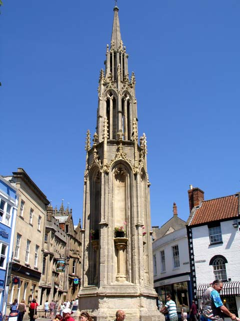 Glastonbury Market Cross. Built in 1846 it replaced an earlier market cross which had been pulled down in 1808.